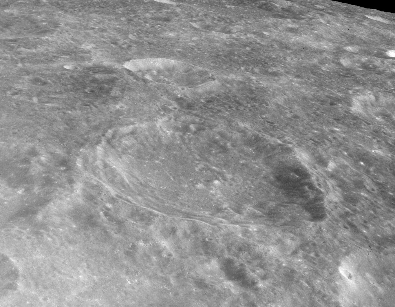 Vesalius crater on the image AS16-M0625 (south up)